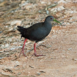 Blackish Rail at Jacutinga - MG - Brazil